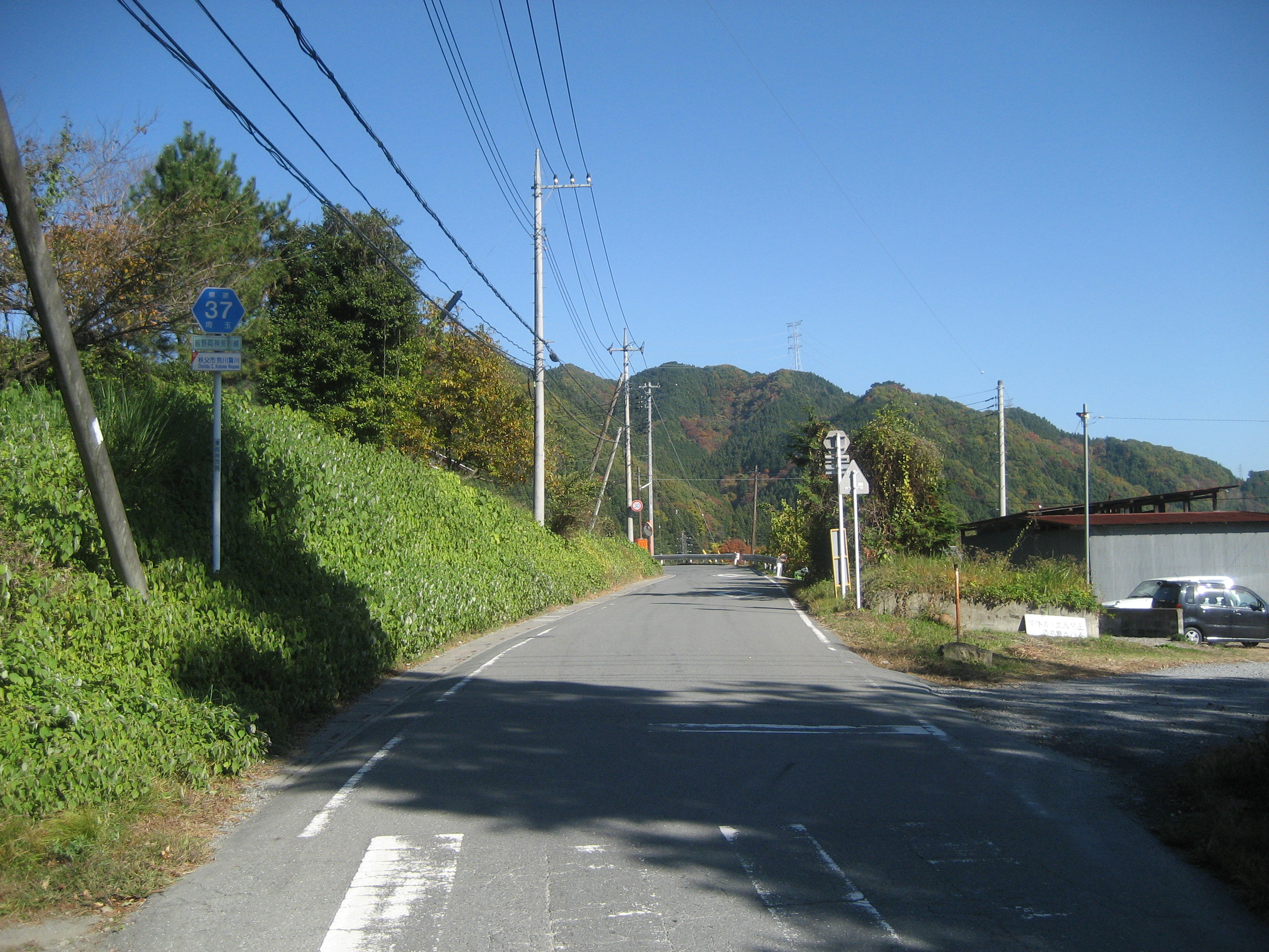 The Saitama Prefectural Road Route 37 in Chichibu City